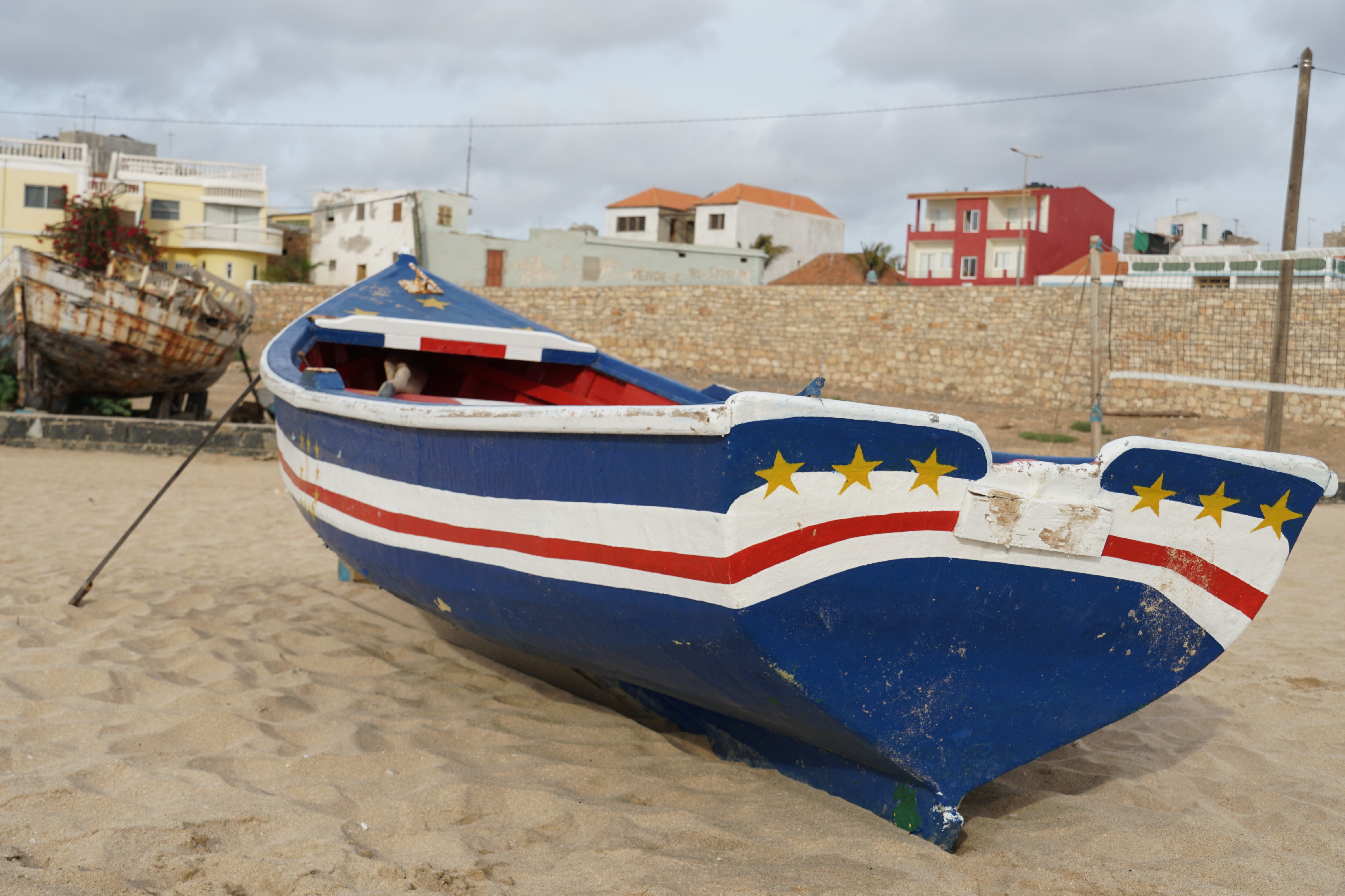 This is an image with the theme "Africa on the Move or Transport" from: Cape Verde